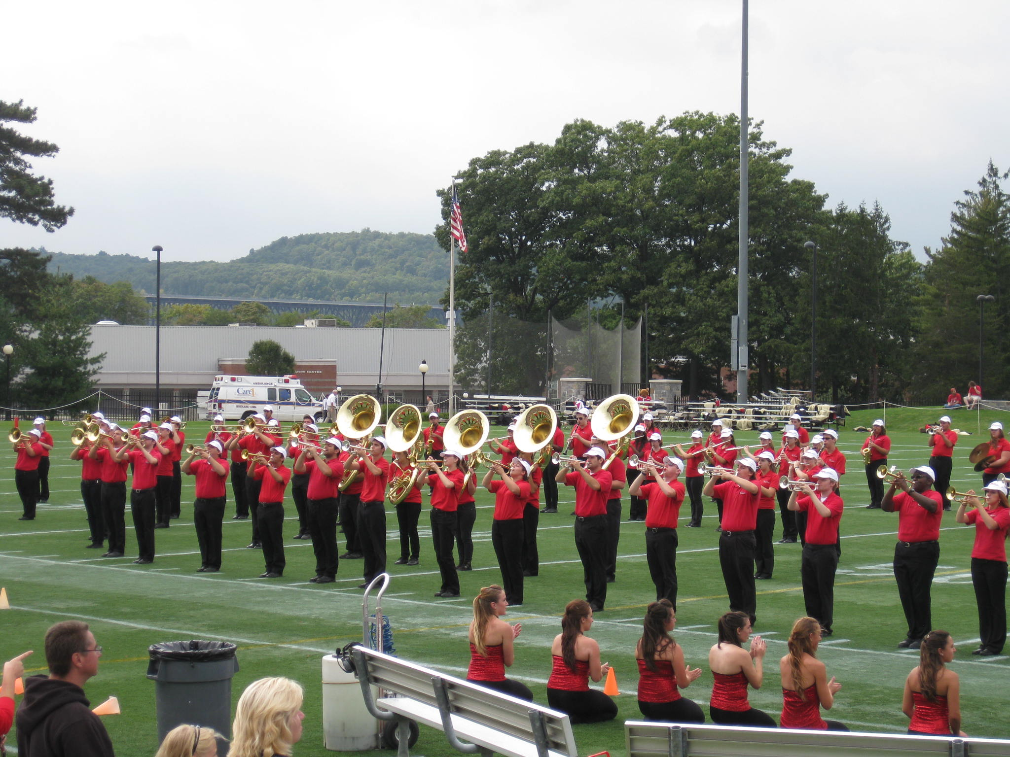 Marist Band Homecoming 2012